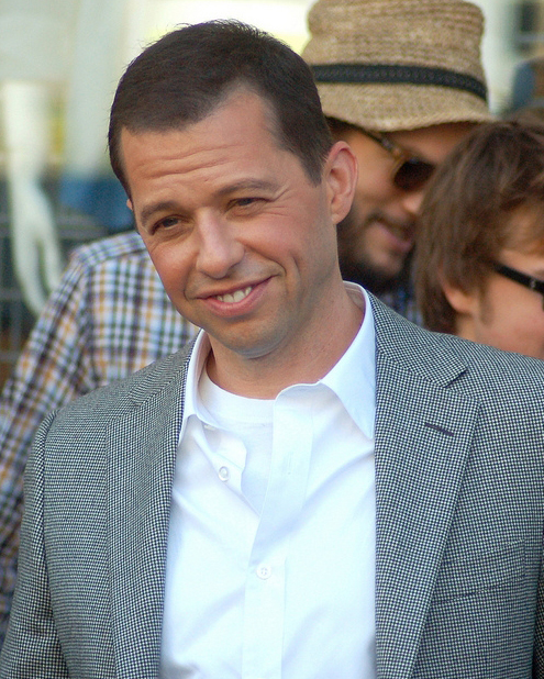 Jon Cryer at a ceremony for Cryer to receive a star on the Hollywood Walk of Fame in September 2011.